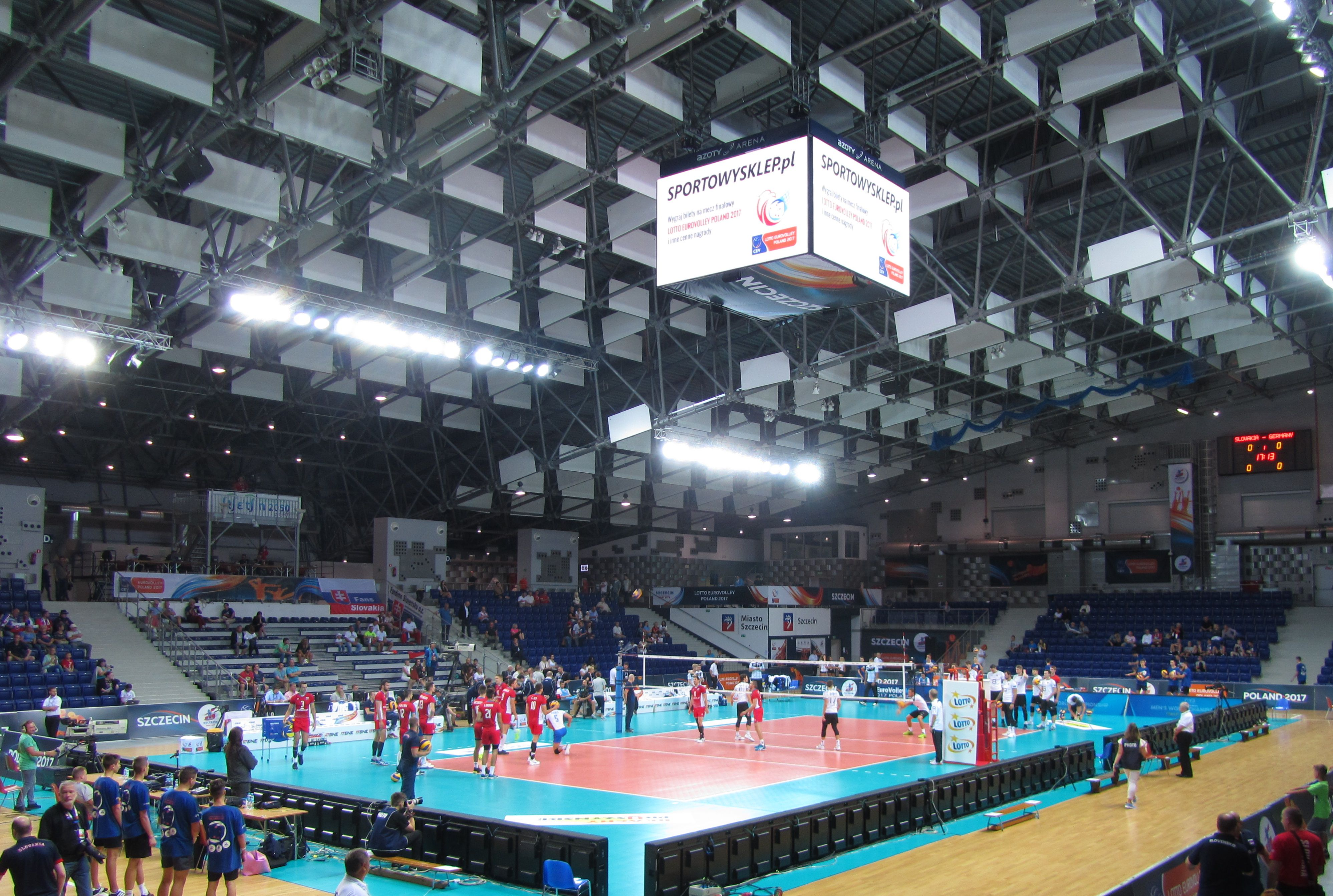 Volleyball Men's European Championship 2017 in the Azoty Arena in Szczecin, before the preliminary round match Slovakia vs Germany